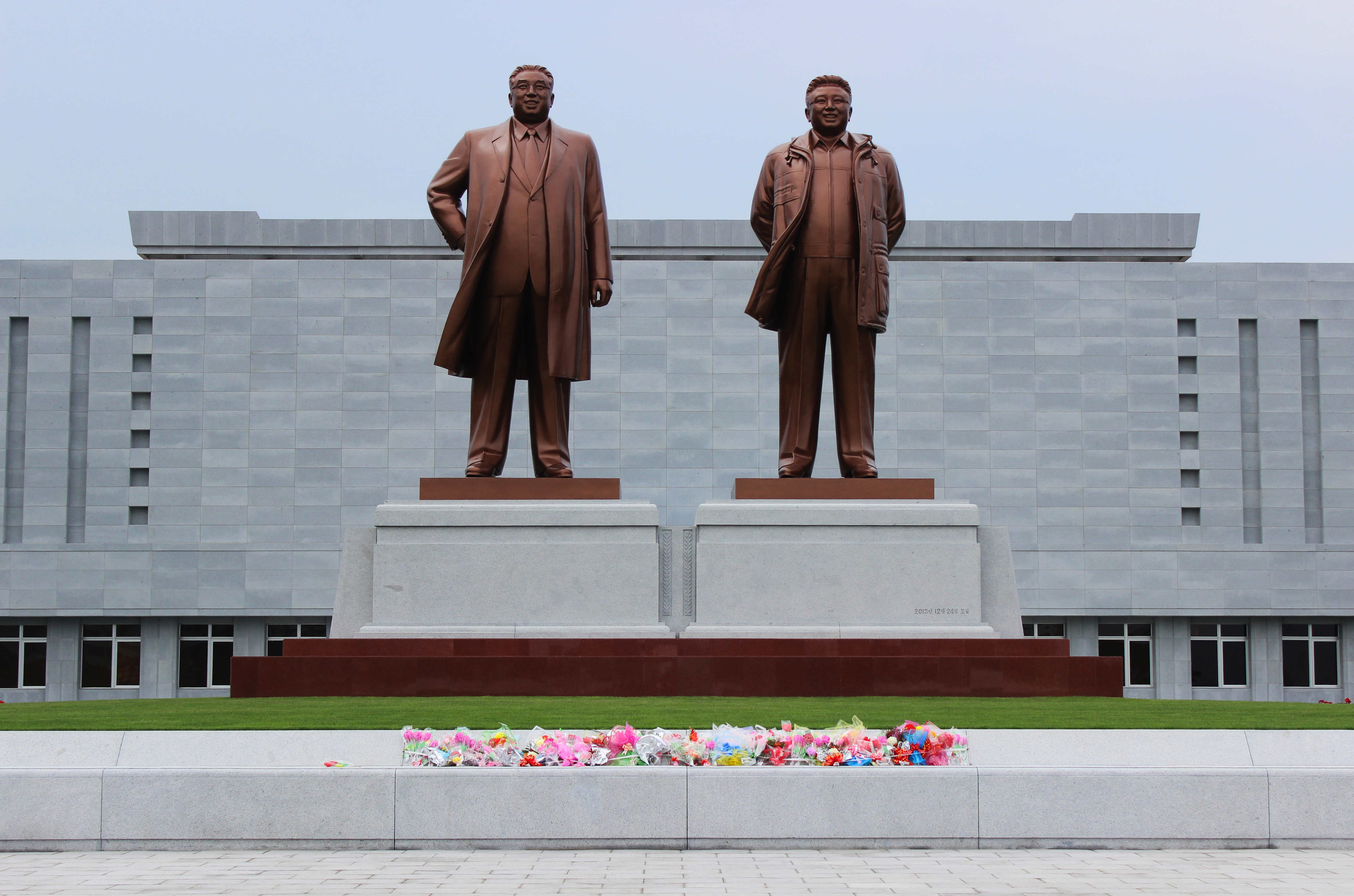 Wonsan. Statue of Kim Il-sung and Kim Jong-il